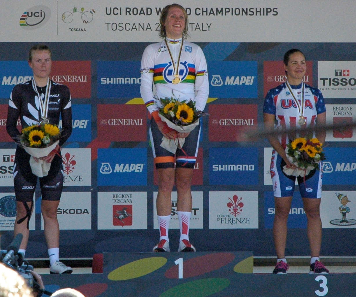 The podium of the women's time trial at the 2013 UCI Road World Championships 1) Ellen van Dijk 2) Linda Villumsen 3) Carmen Small